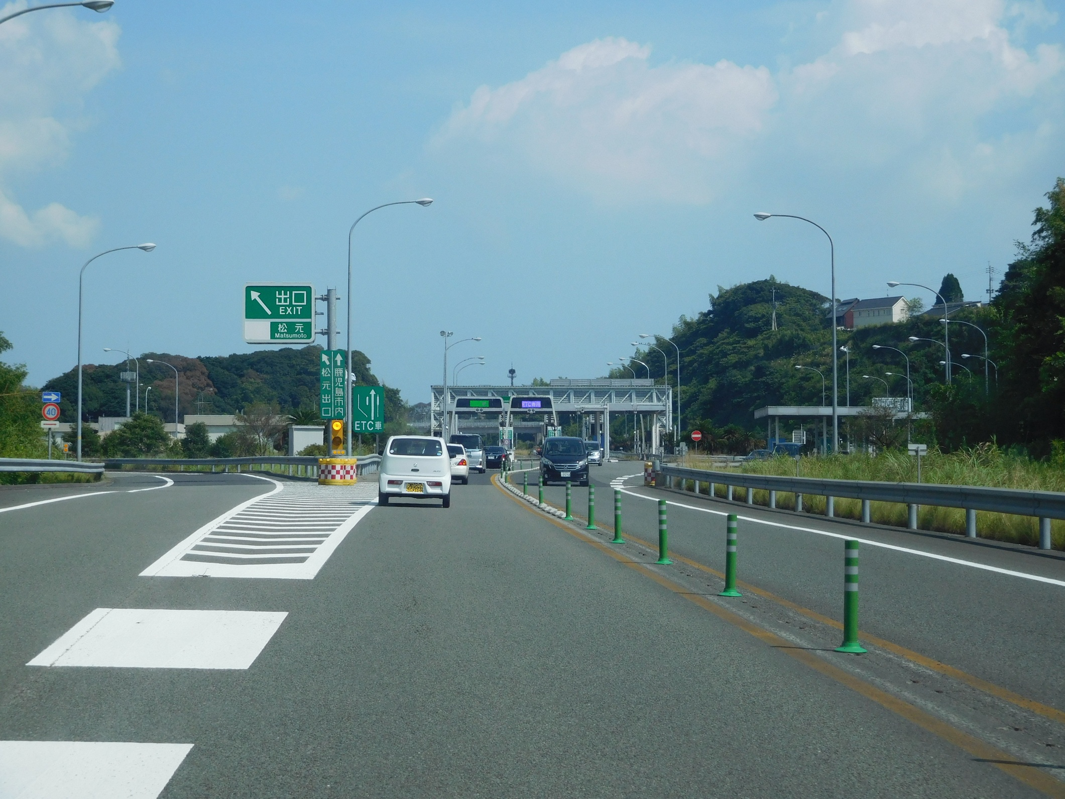 The Matsumoto Interchange of Minami-Kyushu Expressway in Kagoshima City, Kagoshima Prefecture, Japan.